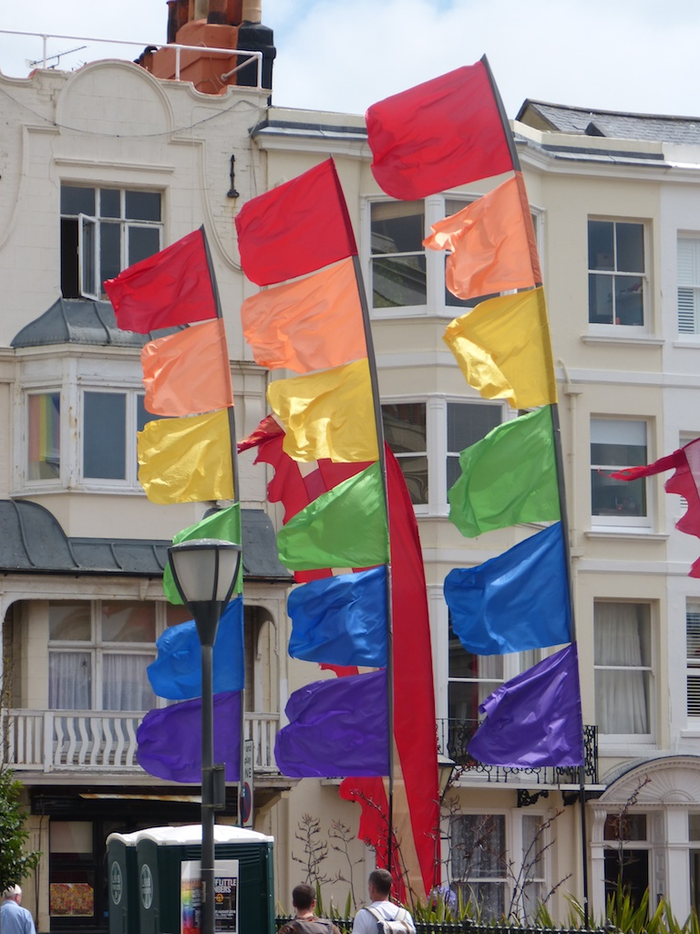 Near Camptown. . Sorry Kemp town on Gay Pride day